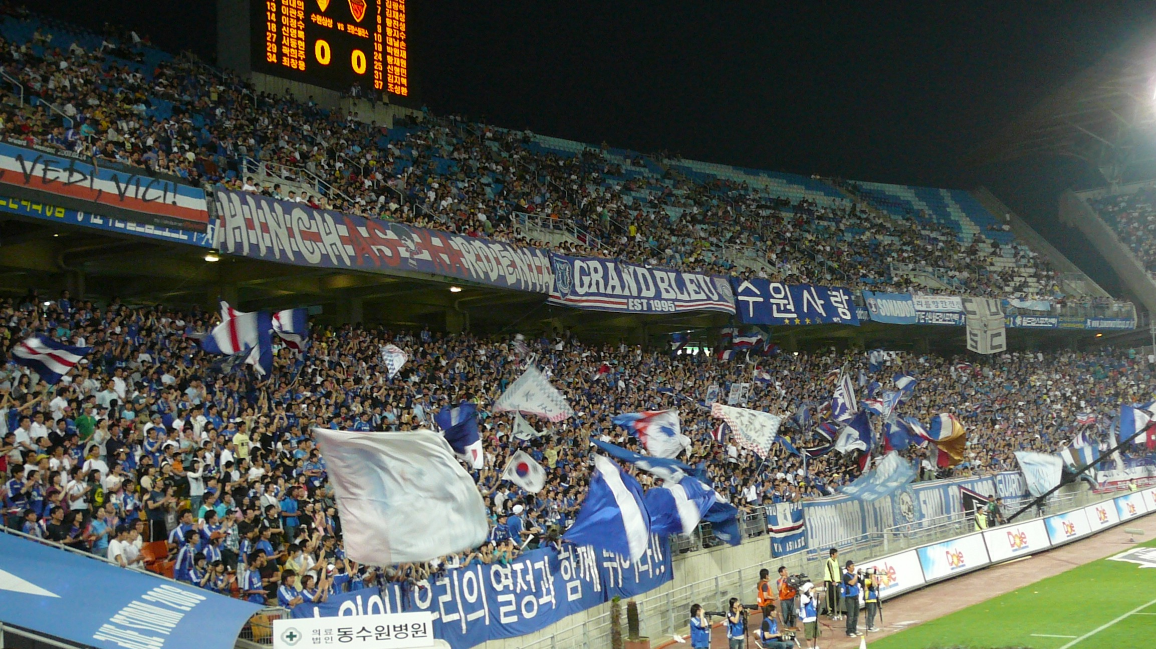 Grandbleu, the supporters union of Suwon Samsung Bluewings F.C. of K-League. (The picture was taken at the K-League match against Pohang Steelers, 24 May 2008.)